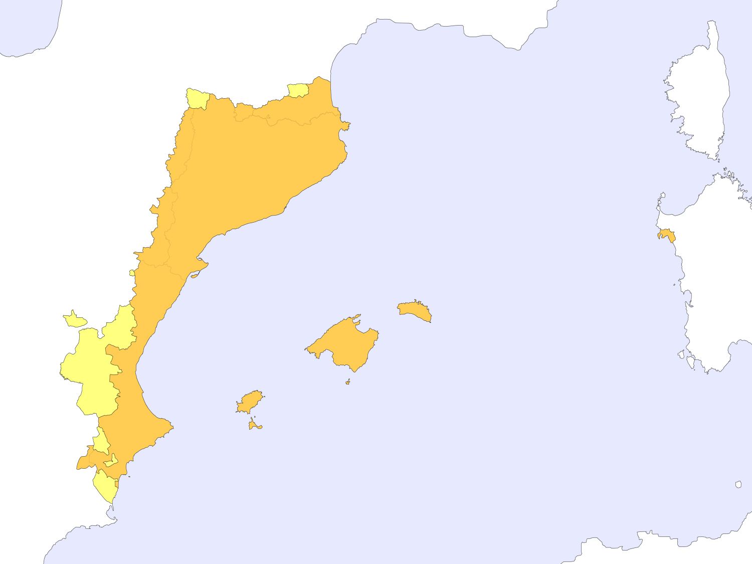 Extension of Catalan language in the Catalan Countries